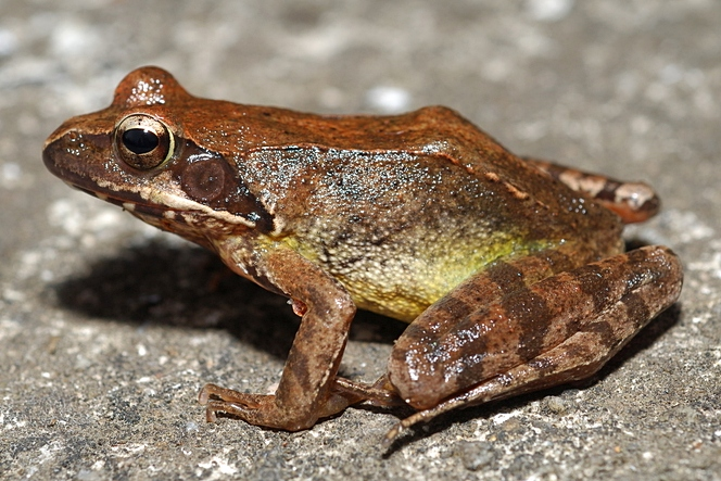 Rana dybowskii